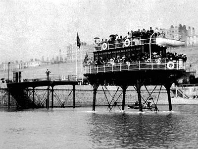 Photo of Daddy Long Legs, vehicle of unusual seagoing railway that existed in Brighton, UK, brtween 1896 and 1901